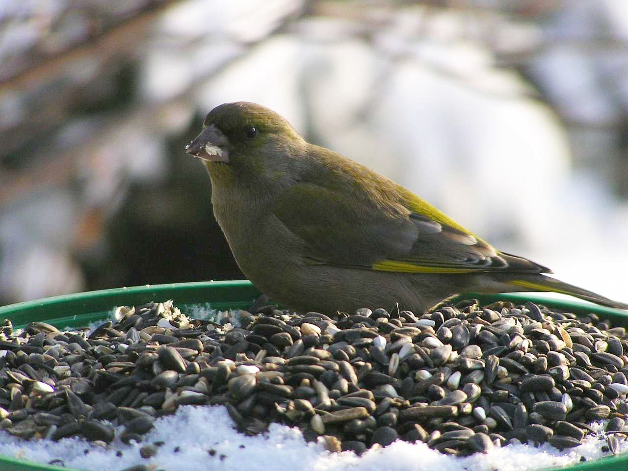 European Greenfinch Carduelis chloris, Bytom, Poland